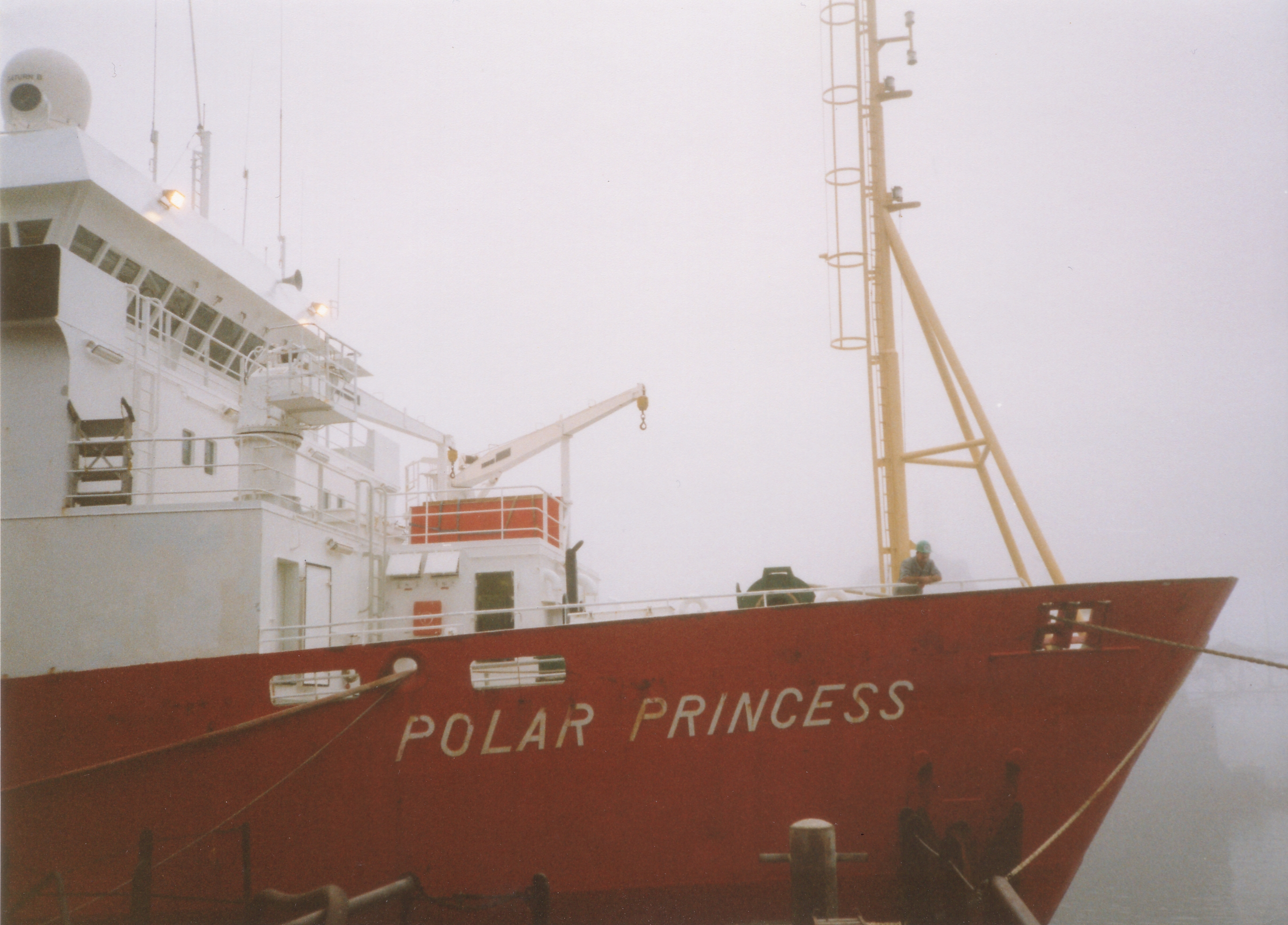 the MV Polar Princes (a Seismic Survey Vessel (SSV)) taken (by Veedar) in dock in Tampa, Florida, USA in 1999.